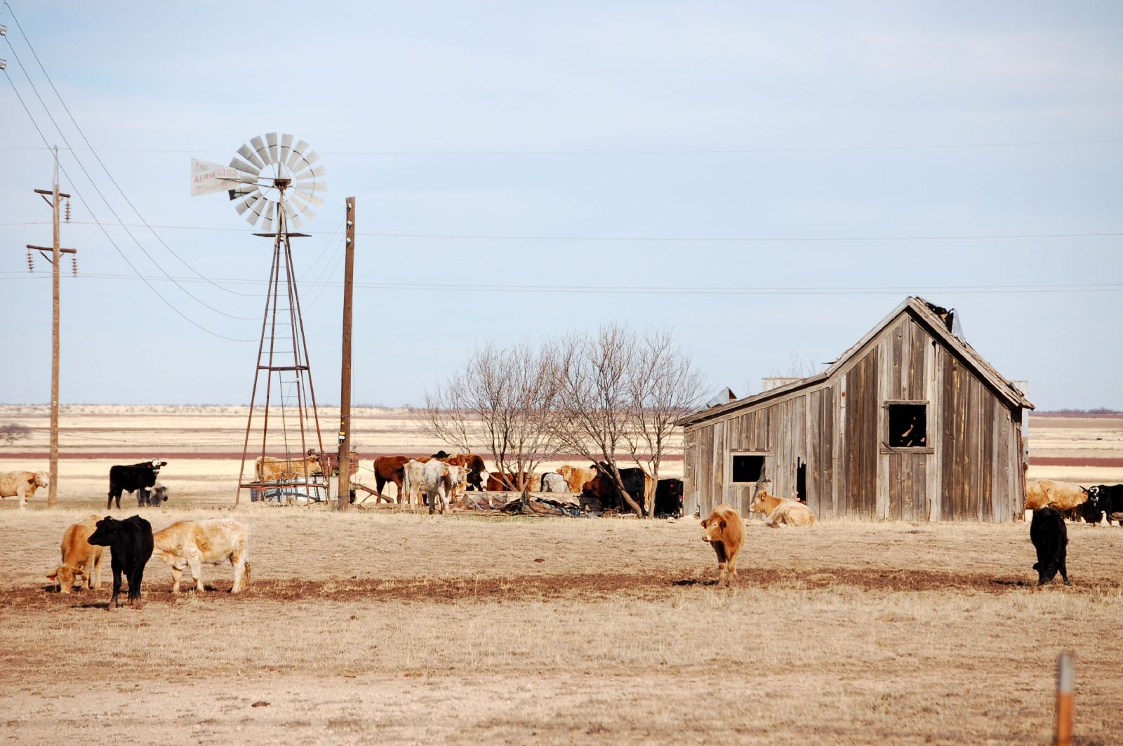 Texas